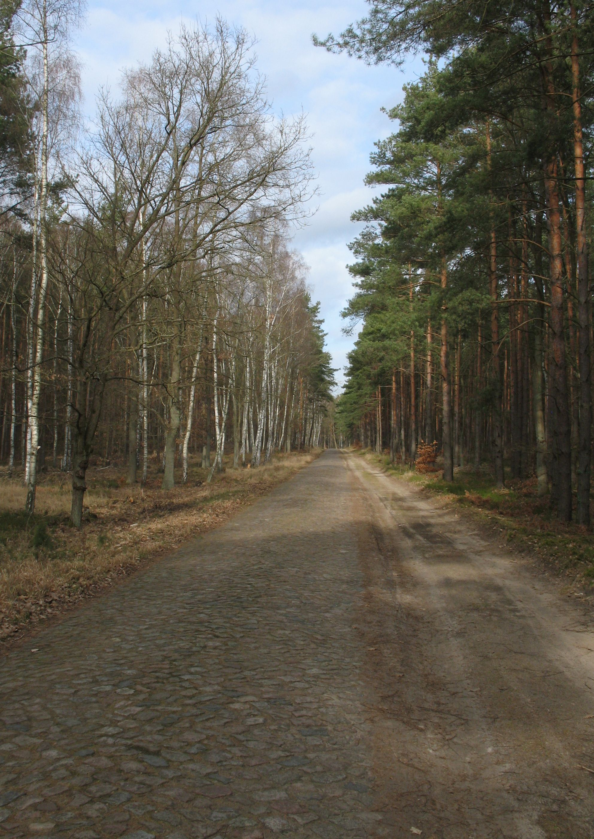 Street between Schorfheide-Schluft and Zehdenick-Kurtschlag in Brandenburg, Germany